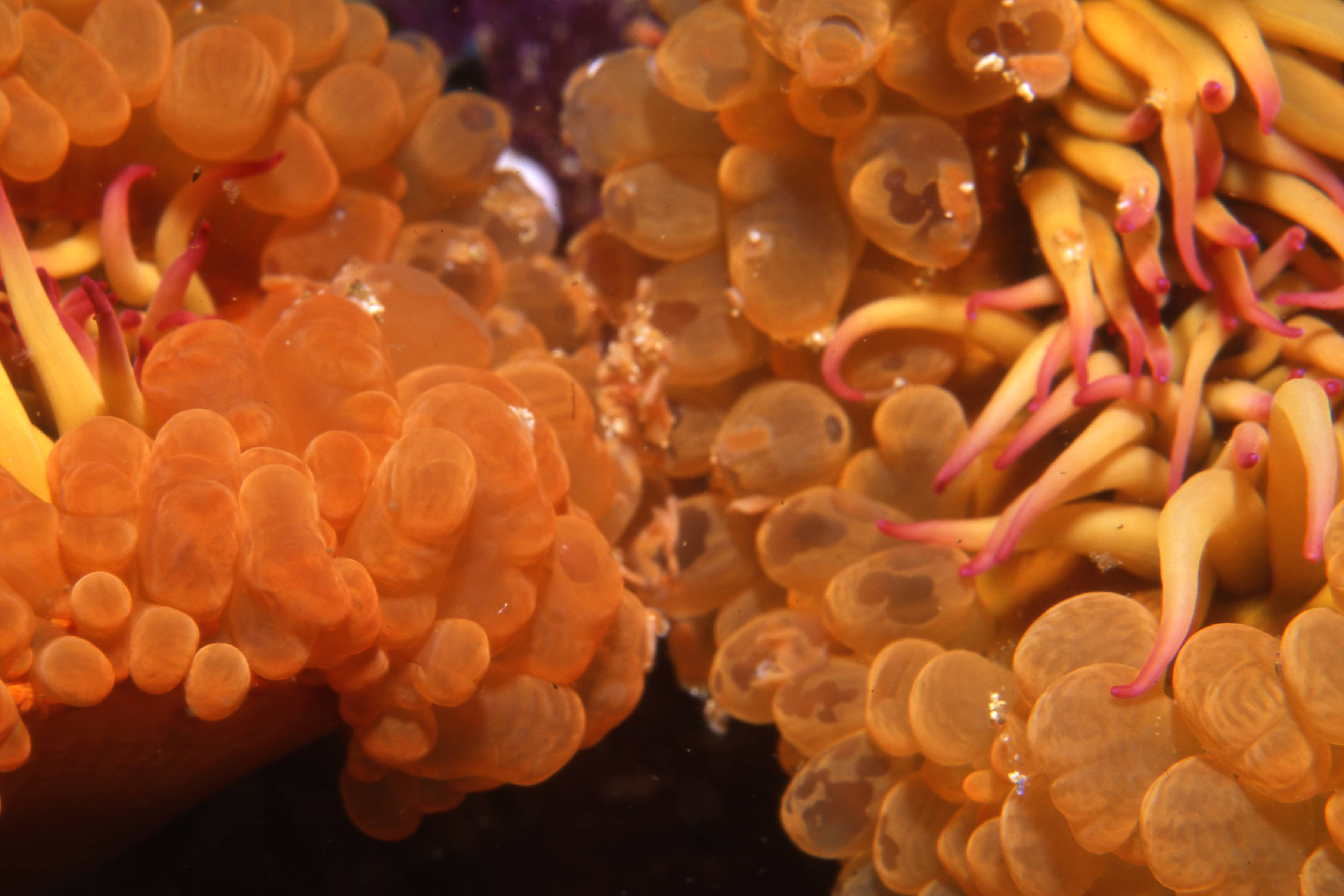 A closeup photograph showing two Pseudactinia anemones fighting each other. Photograph taken in about 15m of water at Partridge Point in False Bay South Africa using a Nikonos V camera